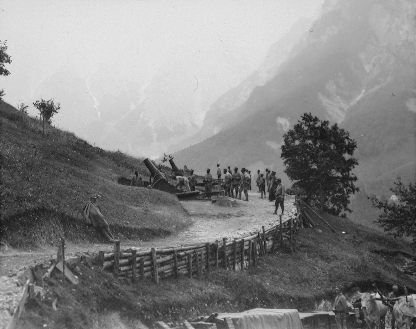 World War 1 - Italian Army: a 210/8 D.A. mortar position in the Val Dogna